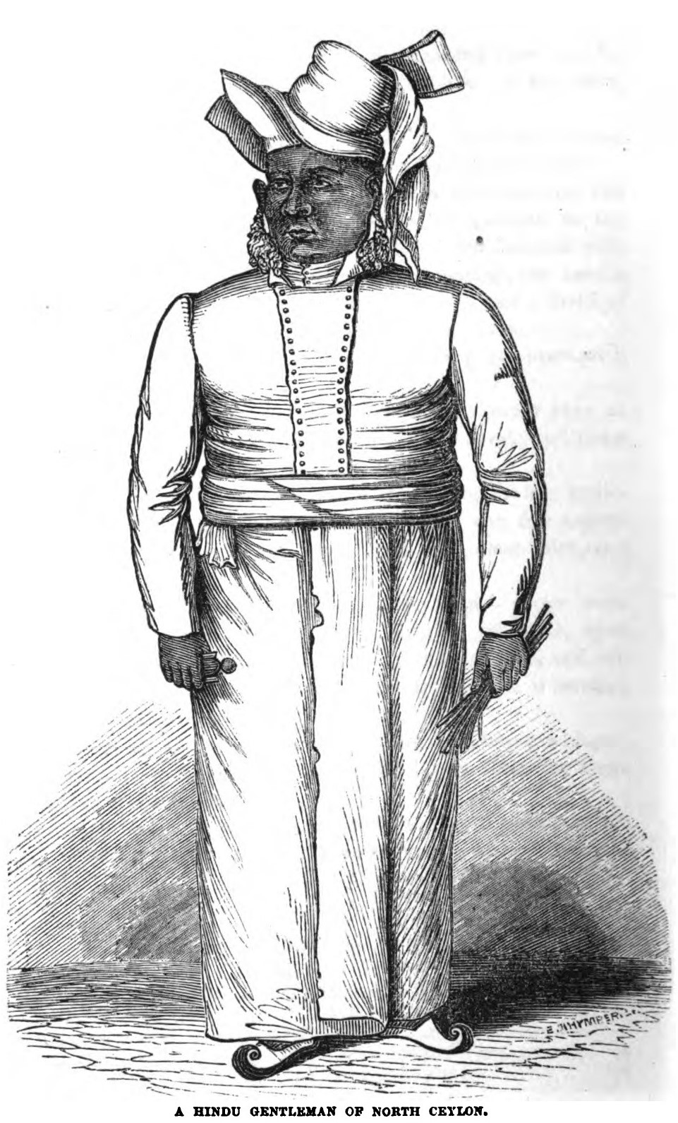 A Hindu Gentleman of North Ceylon (p.72, July 1859, XVI)